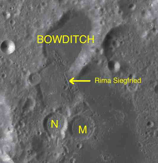 Part of the chart LAC-100 used for the presentation